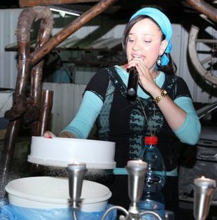 Galit Burg